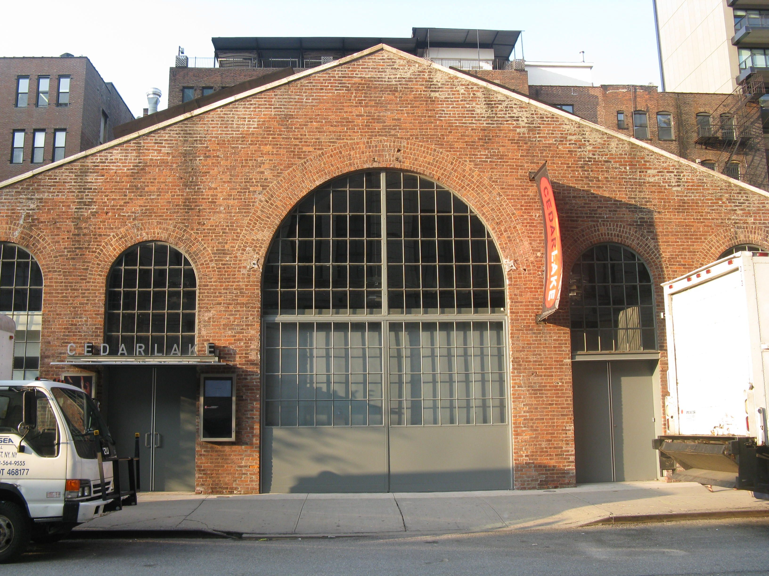 Cedar Lake Ballet Complex at 547 West 26 Street in New York City